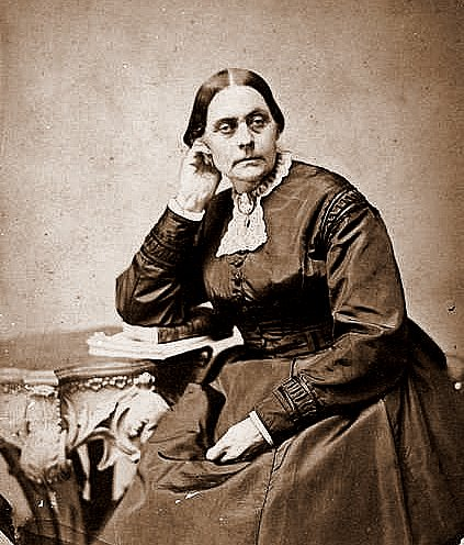 Photo scan of Susan B. Anthony from Life Magazine 1976, July issue.